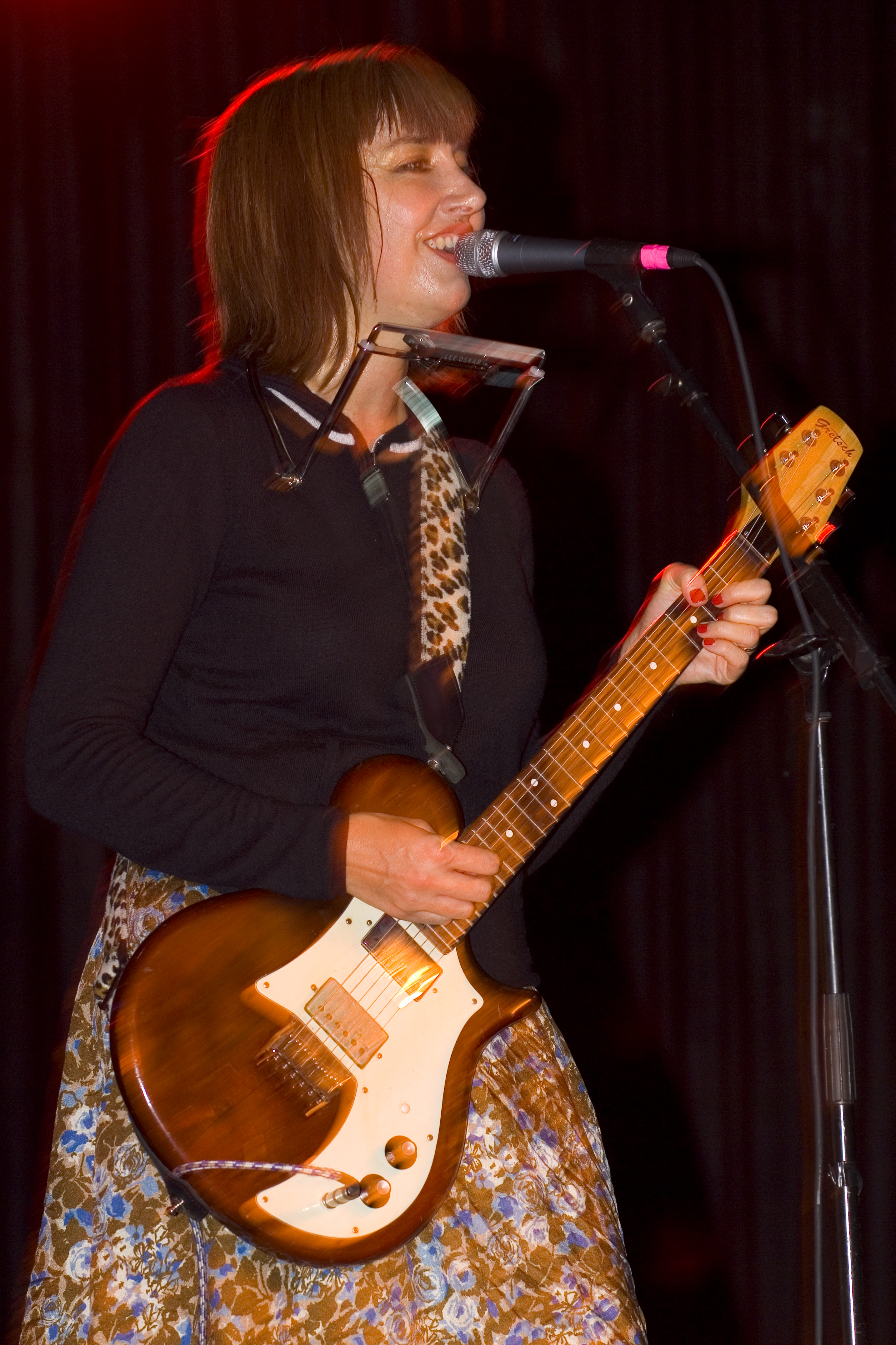 Kim Shattuck playing guitar